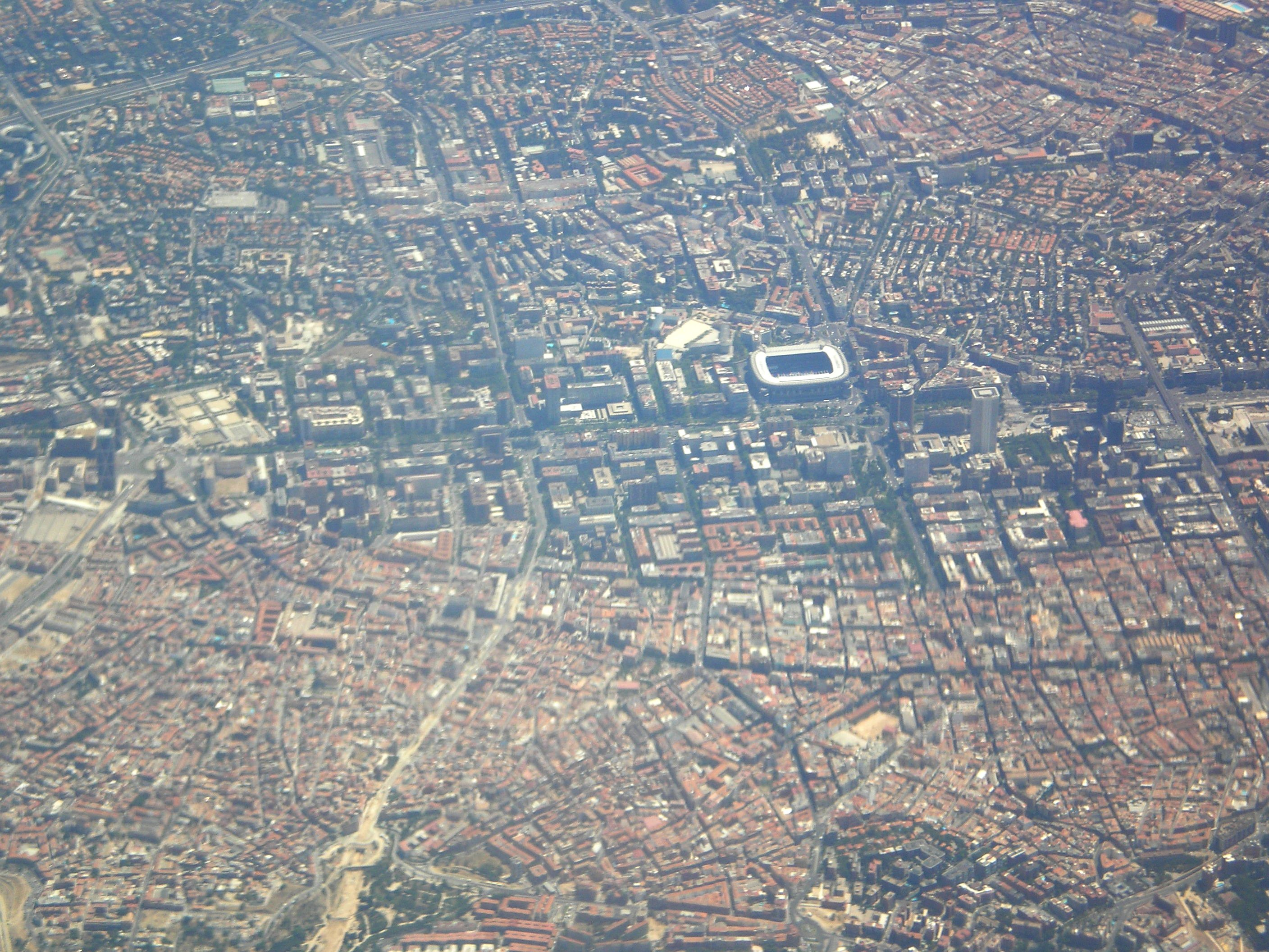 Aerial view of Madrid. Mainly, Paseo de la Castellana.